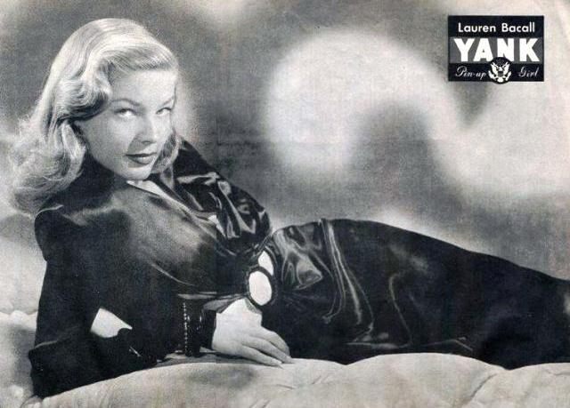 Pin-up photo of Lauren Bacall for the November 24/26, 1944 issue of Yank, the Army Weekly, a weekly U.S. Army magazine fully staffed by enlisted men.